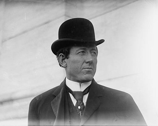 Philip Pitt Campbell (1862 - 1941), U.S. Representative from Kansas